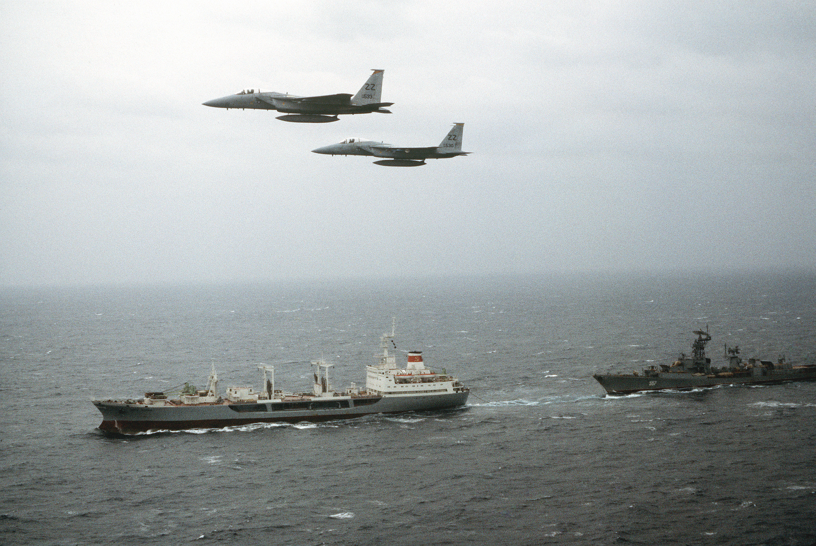 An air-to-air left side view of two F-15 Eagle aircraft, assigned to the 18th Tactical Fighter Wing, over a Soviet large ocean tanker Boris Butoma and project 57-A large anti-submarine ship Gnevnyy during Exercise OSTFRIESLAND II.